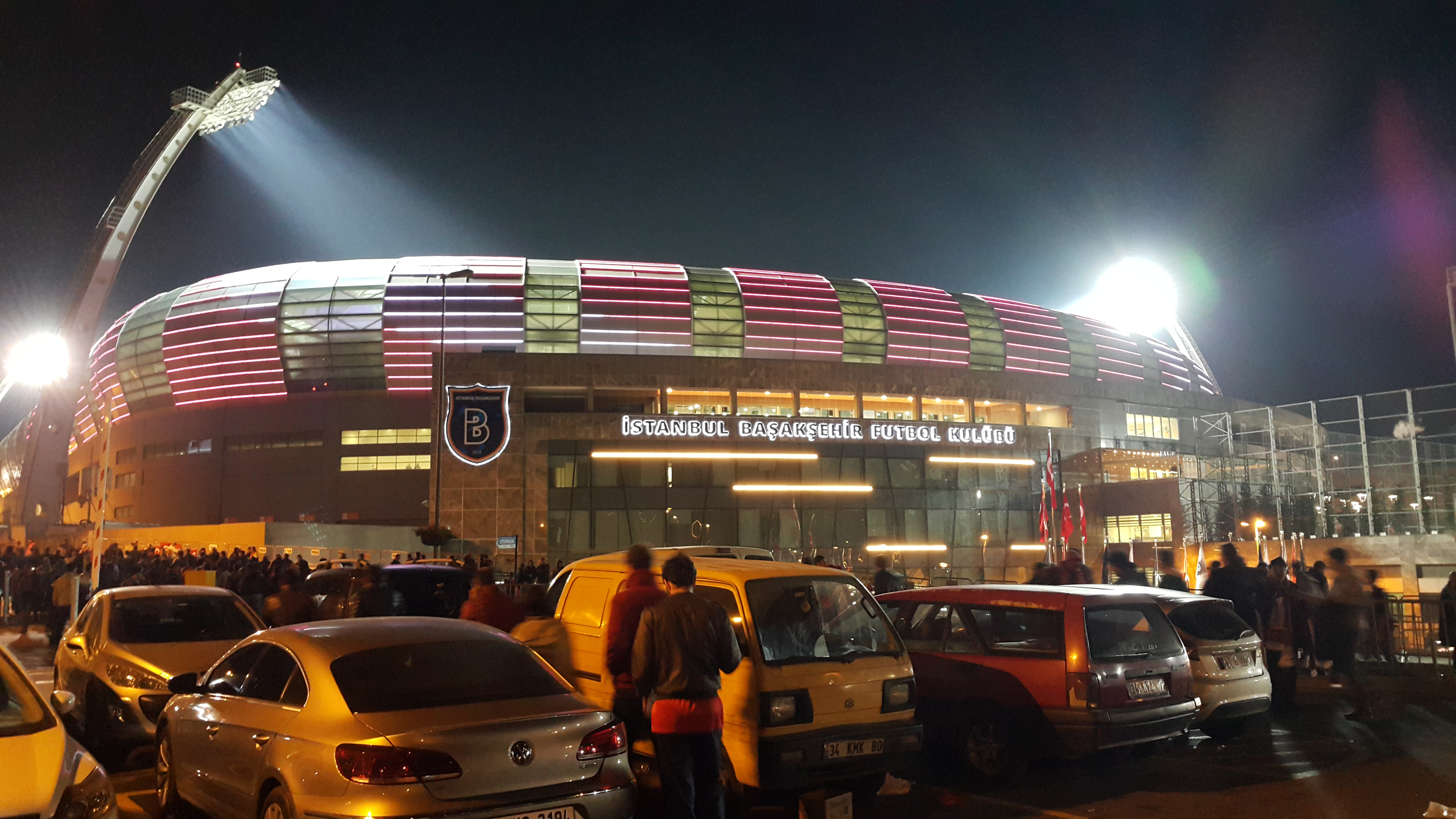 Exterior of Başakşehir Fatih Terim Stadium, Istanbul, Turkey